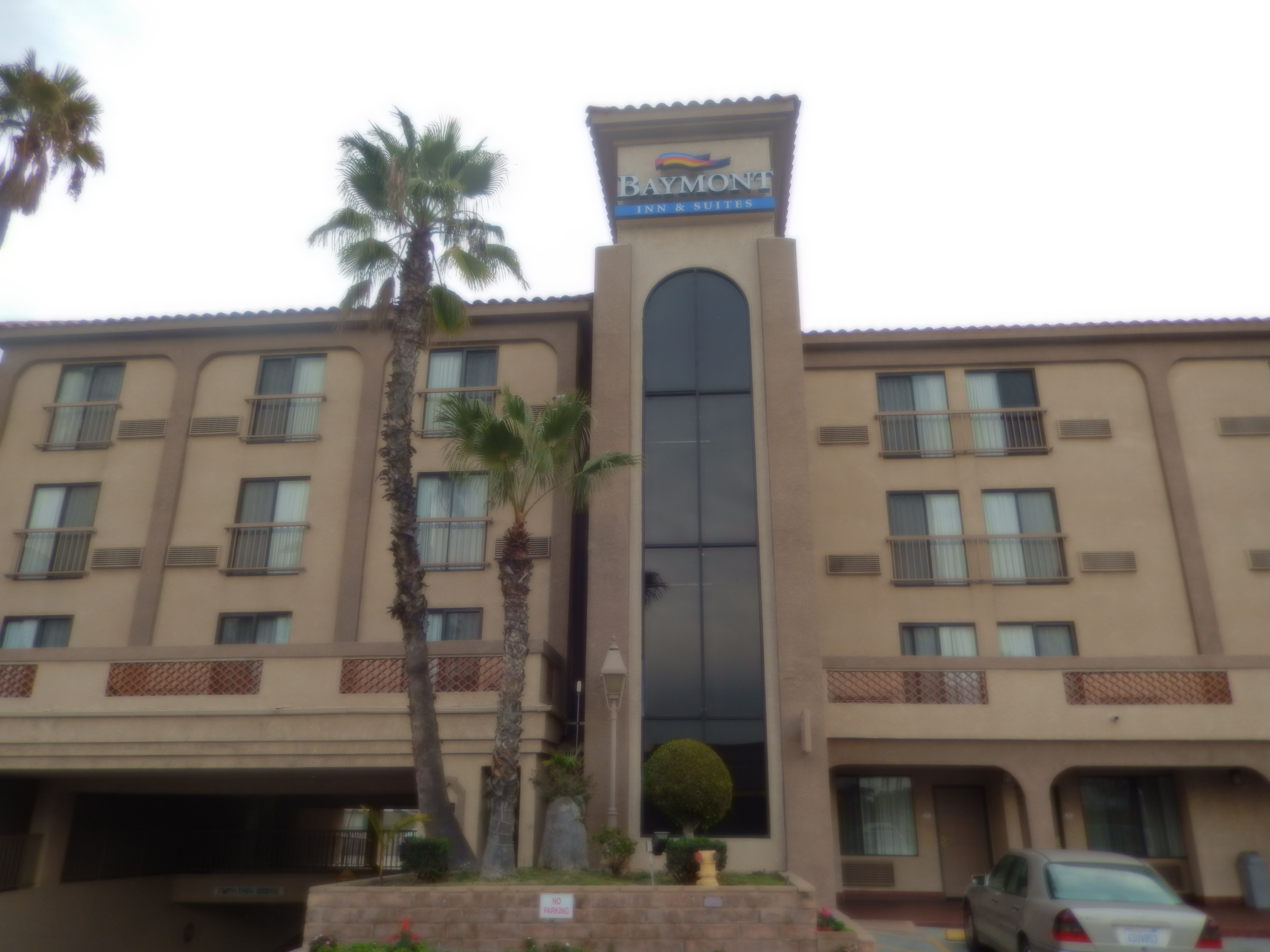 I took photo of Baymont Inn at 14814 Hawthorne Blvd., Lawndale, CA, with Nikon camera.